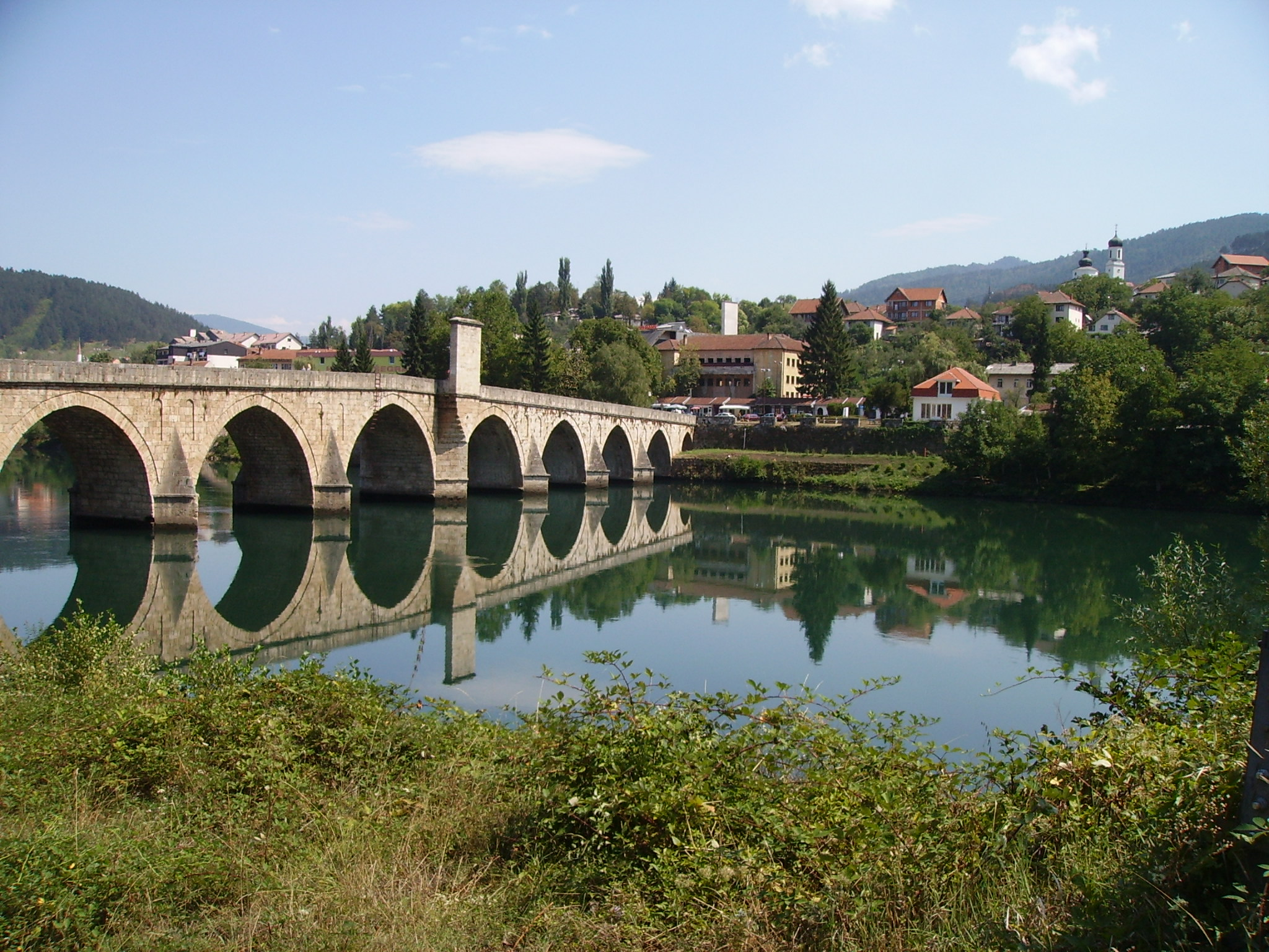 Bridge over Drina River in Višegrad, BiH.